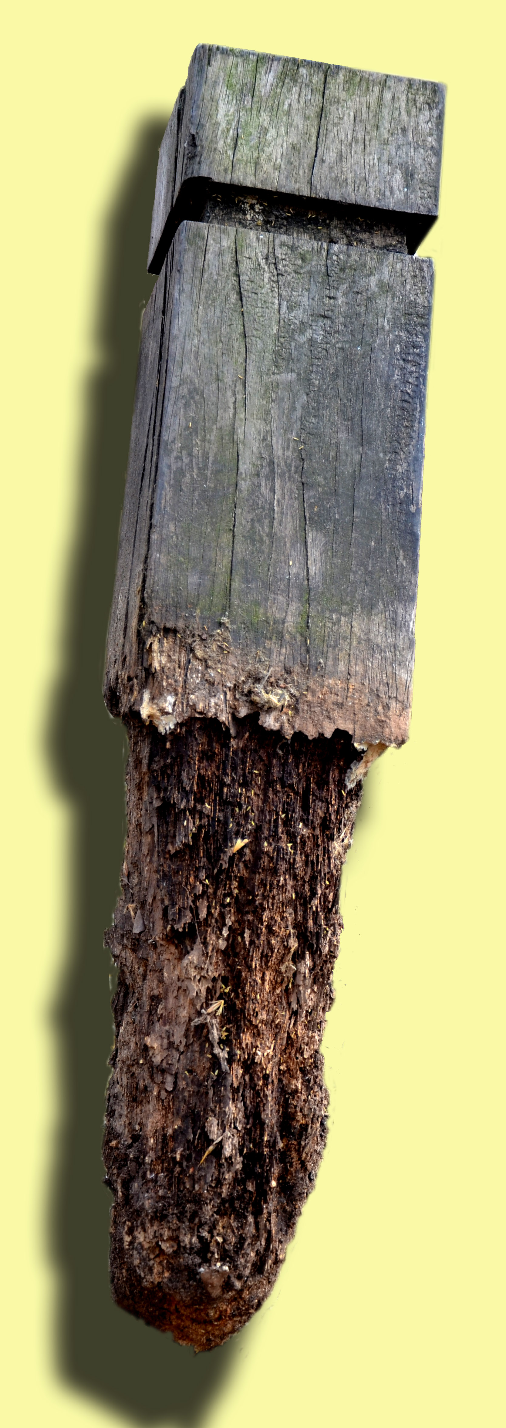 Wood preservation Treatment of wood (here mainly copper) have a limited effectiveness. This wooden stake eventually degrade in the soil after a few years of pesticide leaching by rain, and perhaps because of the adaptation process (natural selection) of bacteria and fungi boring. Some products have a longer lasting effectiveness (eg creosote), but have a high toxicity and generate greater risks for humans and the environment and less recycling old wood.